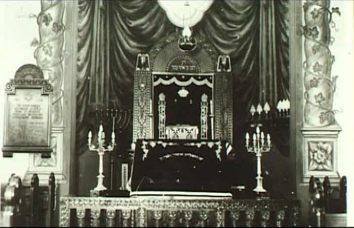 Inside of the synagogue in Alsfeld, built in 1905, destroyed in 1938